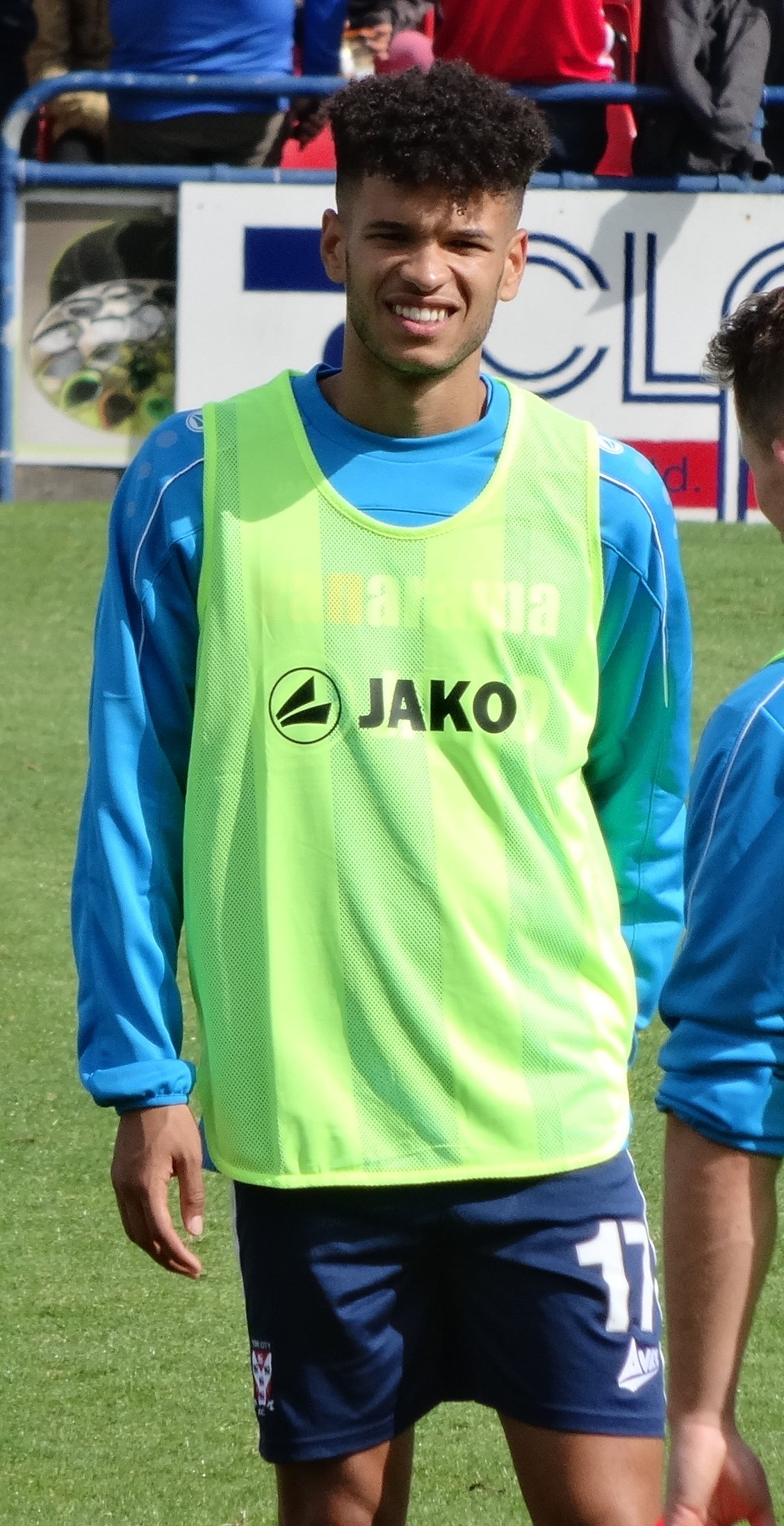 Theo Wharton warming up for York City against AFC Telford United at Bootham Crescent, York on 5 August 2017